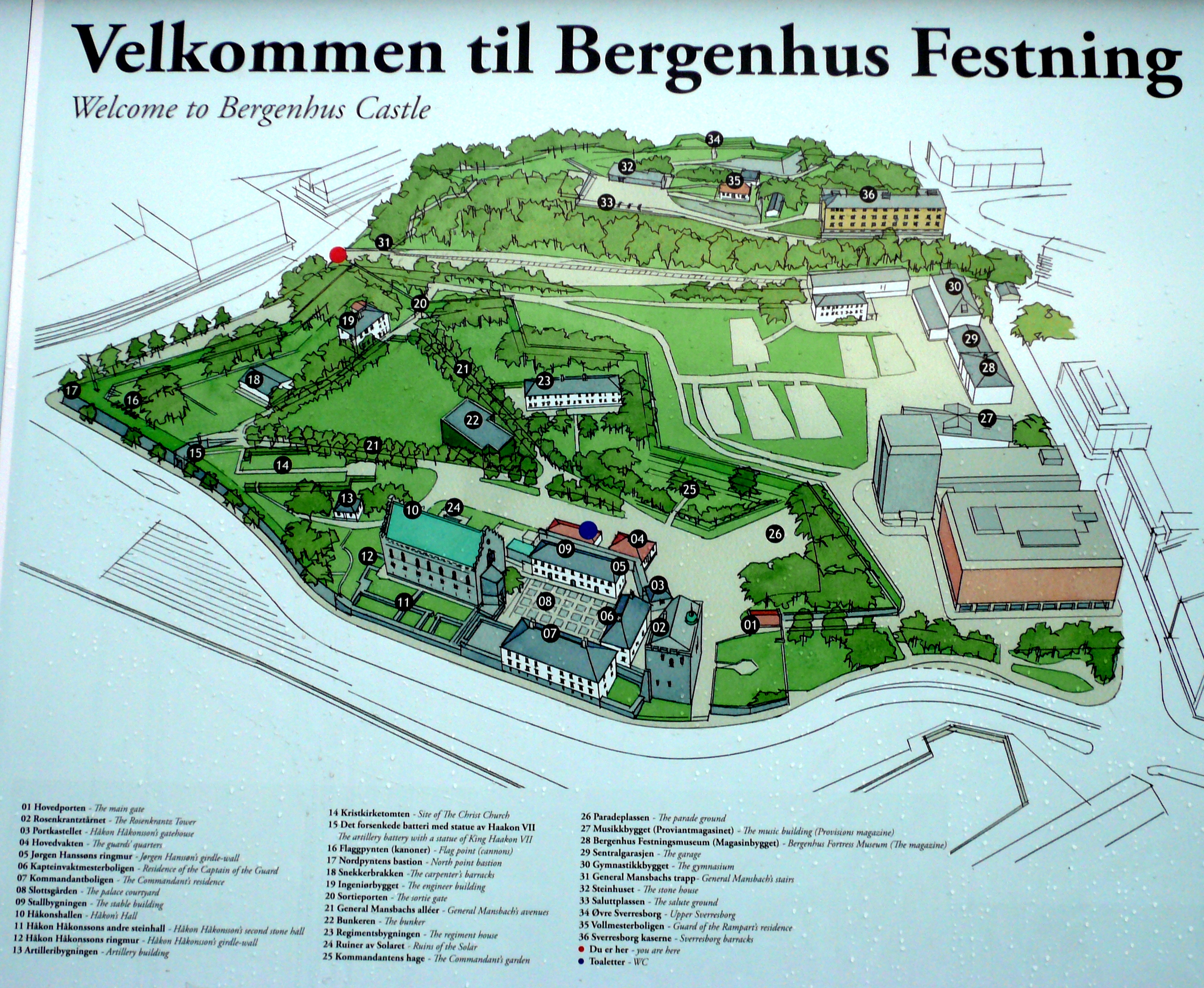 Sign at Bergenhus Castle, Bergen, Norway